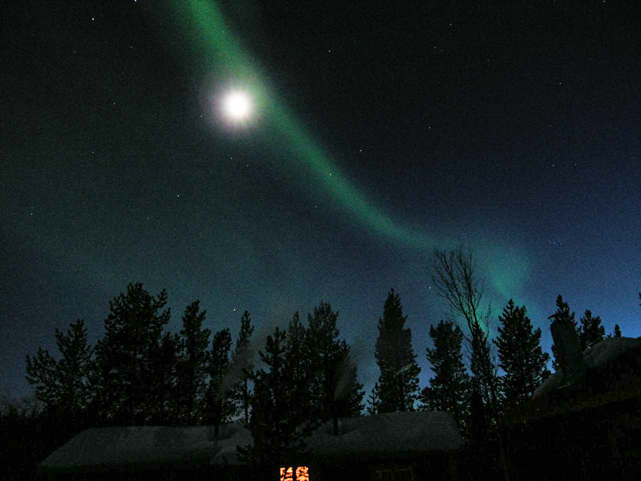 A bright moon and a weakish band of green Northern lights in northern Sweden. Original caption: Northern Lights and moon over our hut - surprisingly bright.